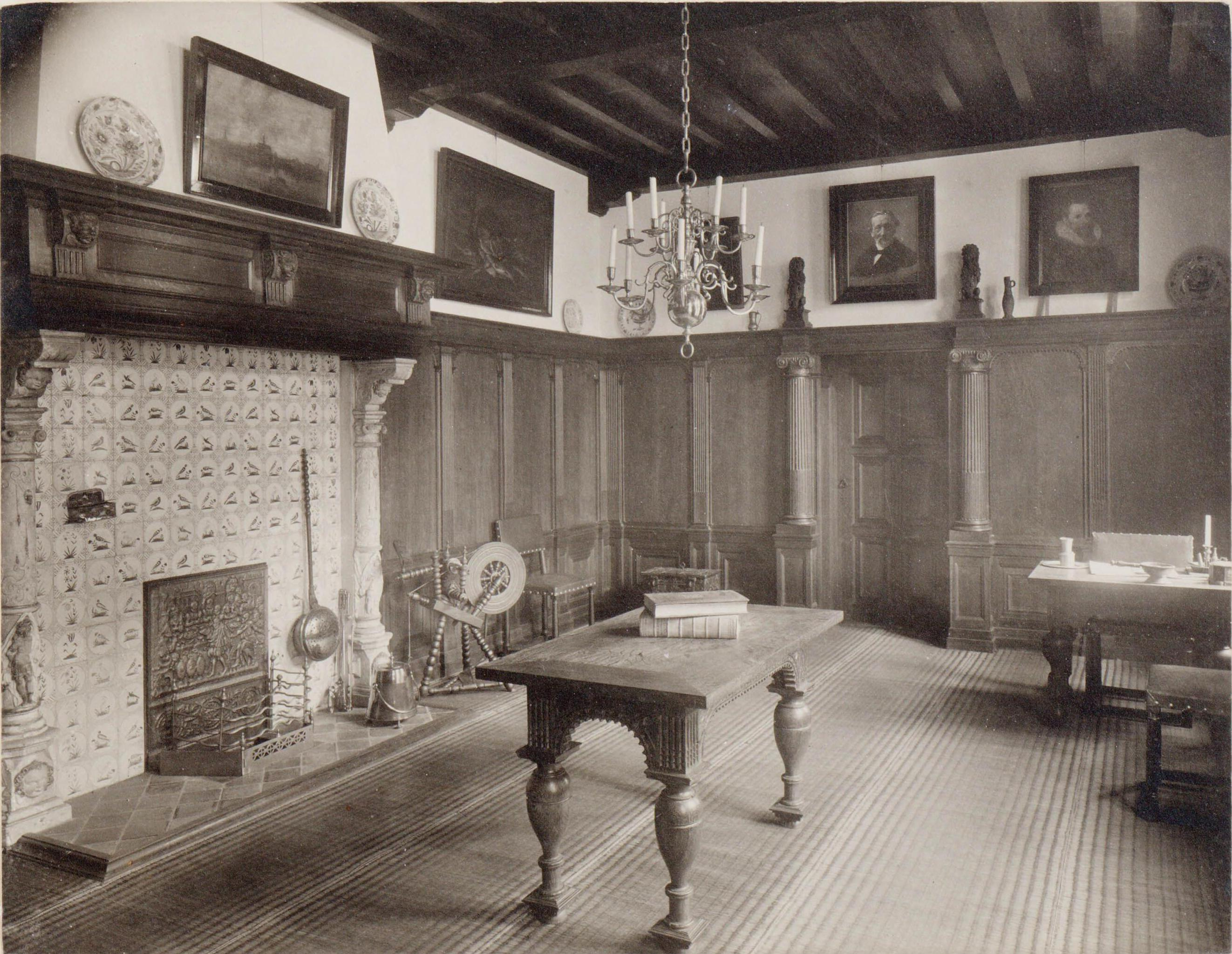 The 'Bruinviskamer' (Bruinvis chamber) in the Stedelijk Museum Alkmaar in 1905.